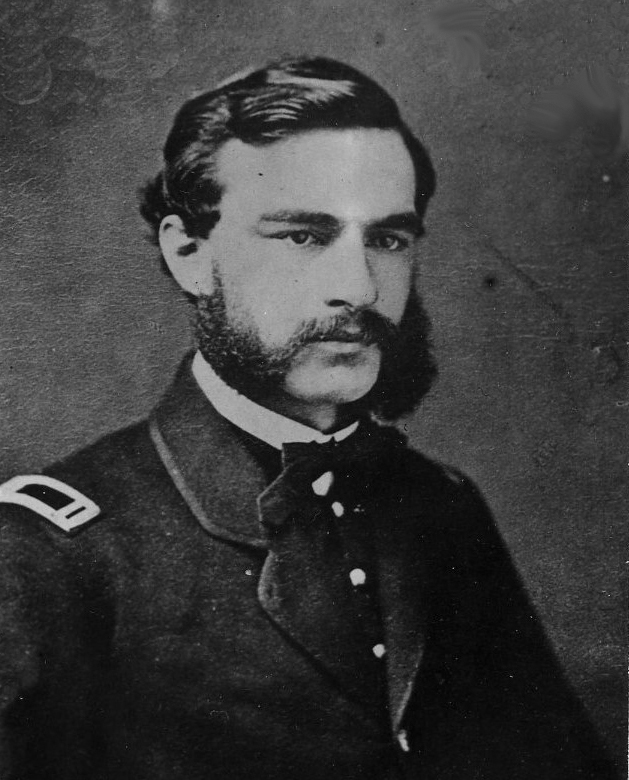 This is a picture of P. S. Michie, Chief Engineer of the Army of the James and engineer in charge of the construction of Dutch Gap Canal.